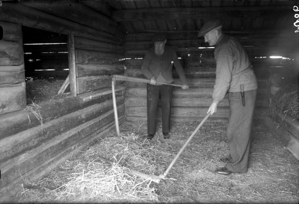 To menn tresker. Fra Hadeland Folkemuseum.